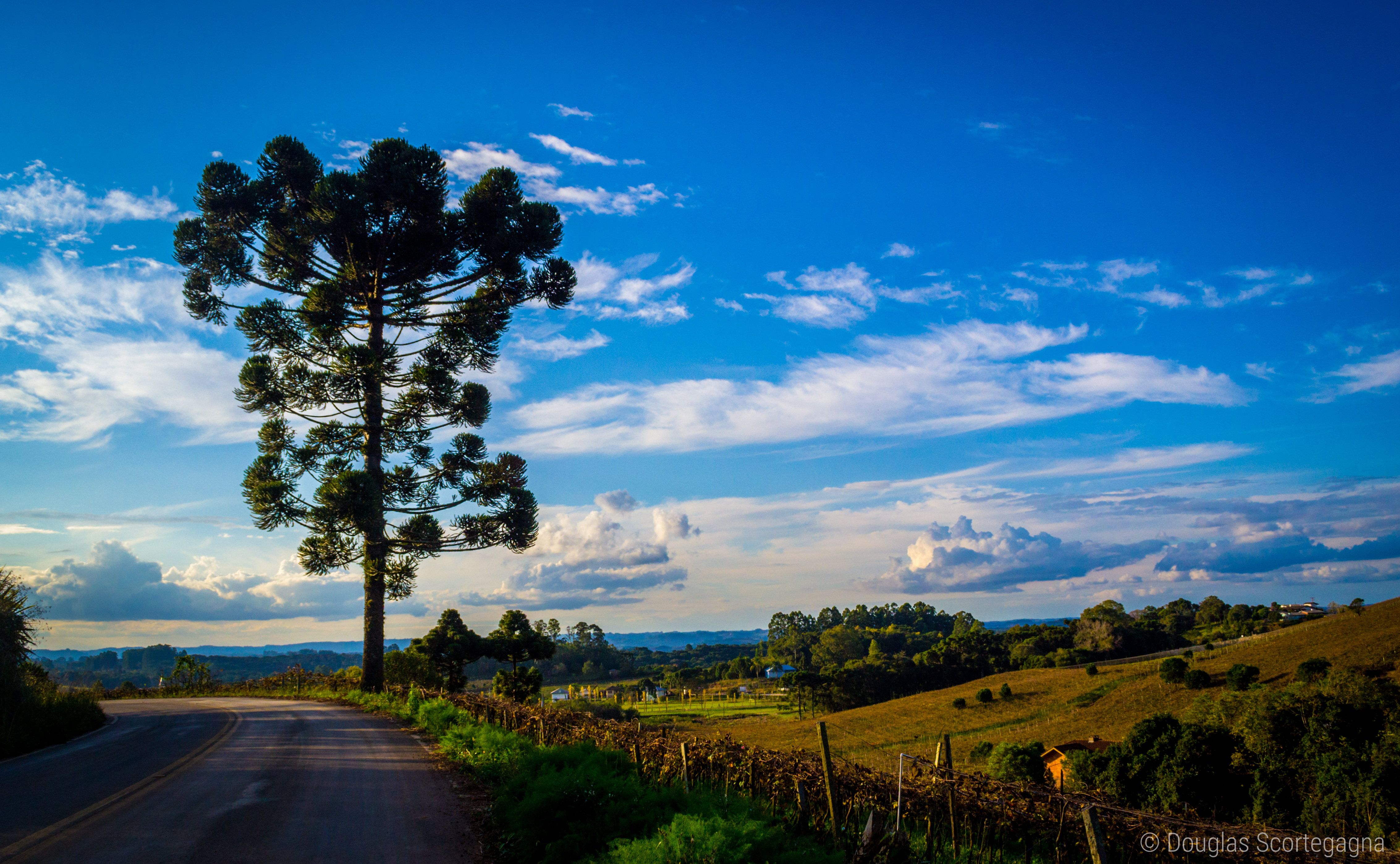 Floes da Cunha, Rio Grande do Sul - Brazil.